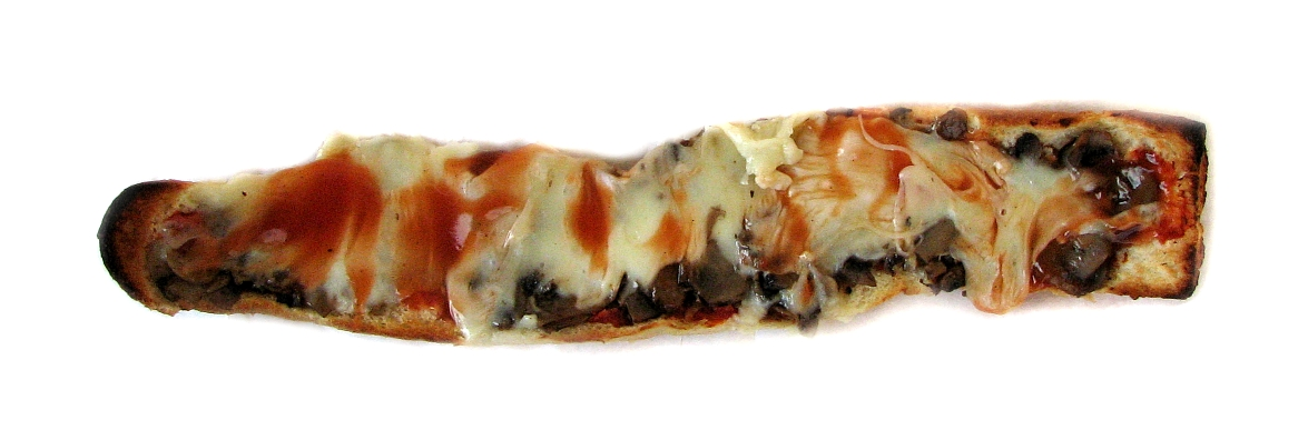 zapiekanka